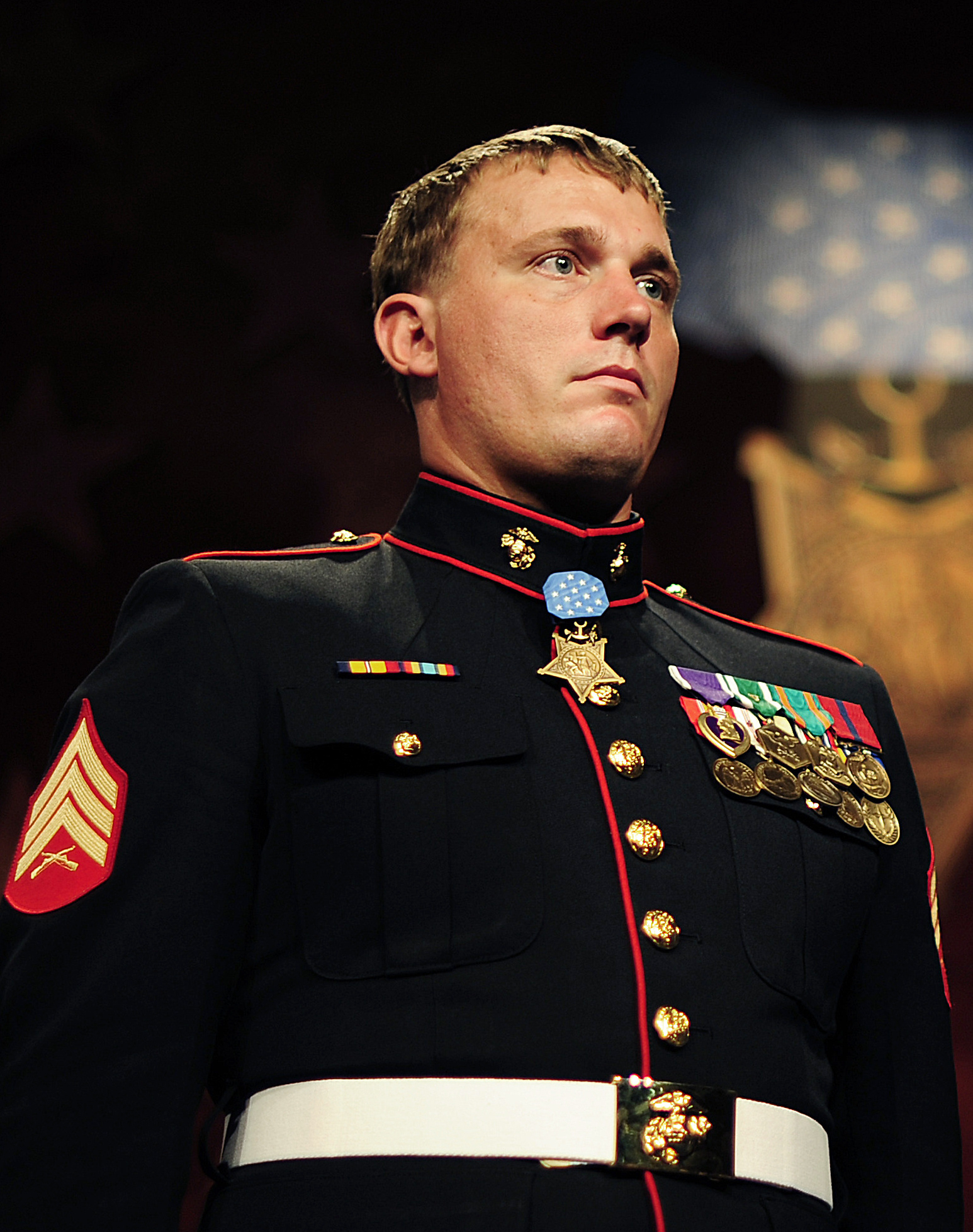 September 2011 photograph of Medal of Honor recipient Dakota Meyer, taken at the Pentagon.